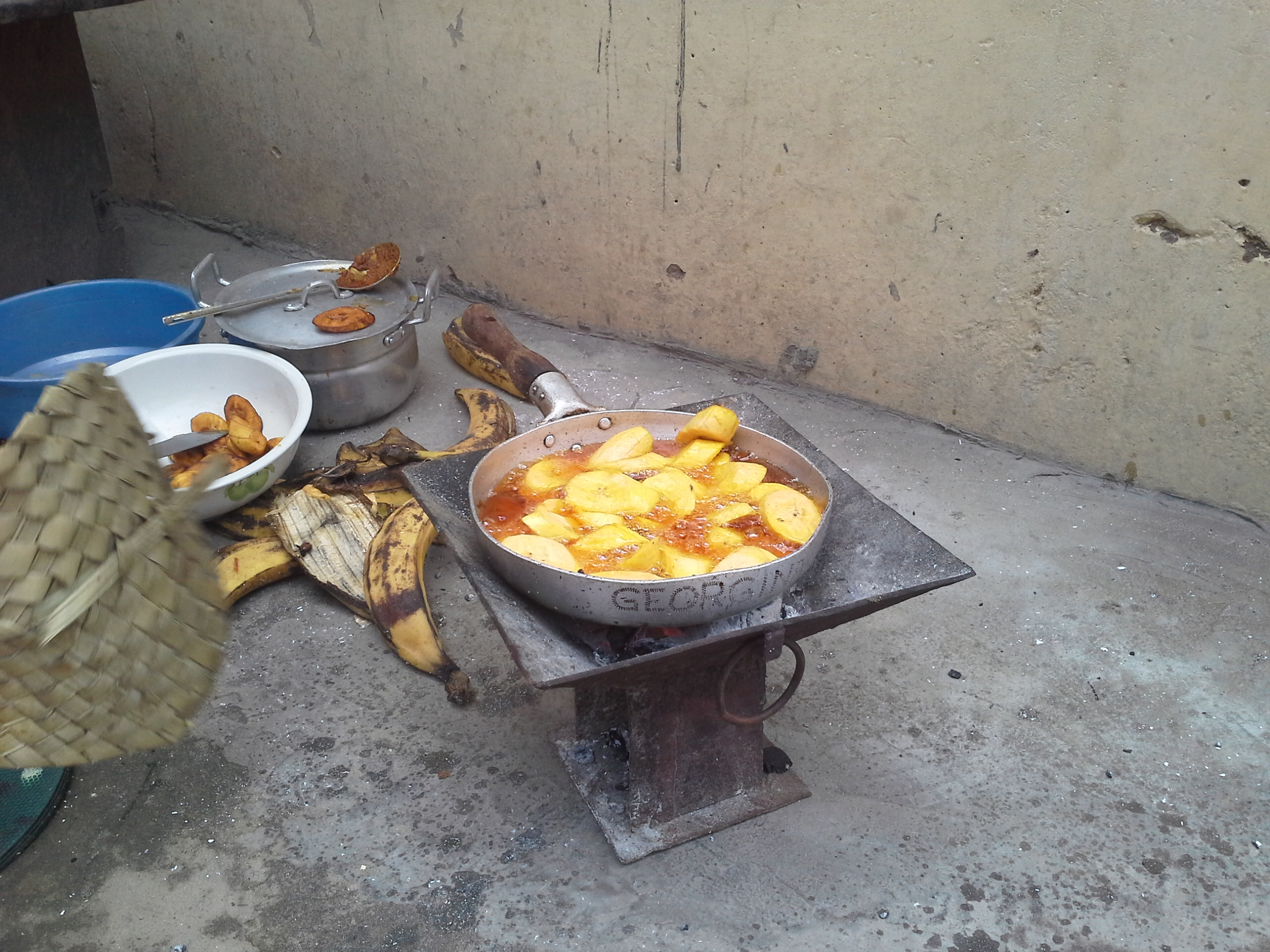 Local way to fry ripe plantain This is an image of food from Ghana